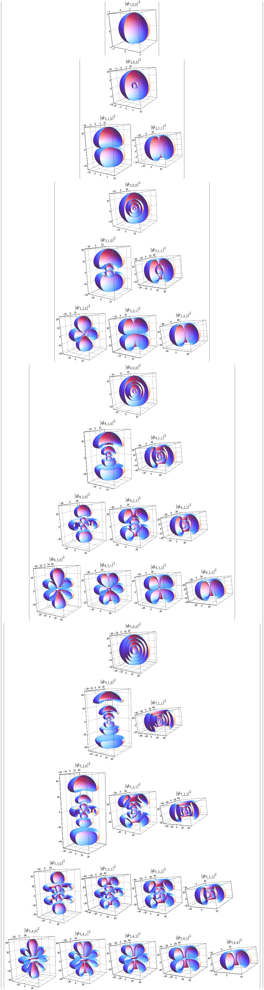 Schrödinger 3D Spherical Harmonic Orbital solutions in 3D Density plots with cutaway views. Seemingly eigenfunctions for the Coulomb potential.